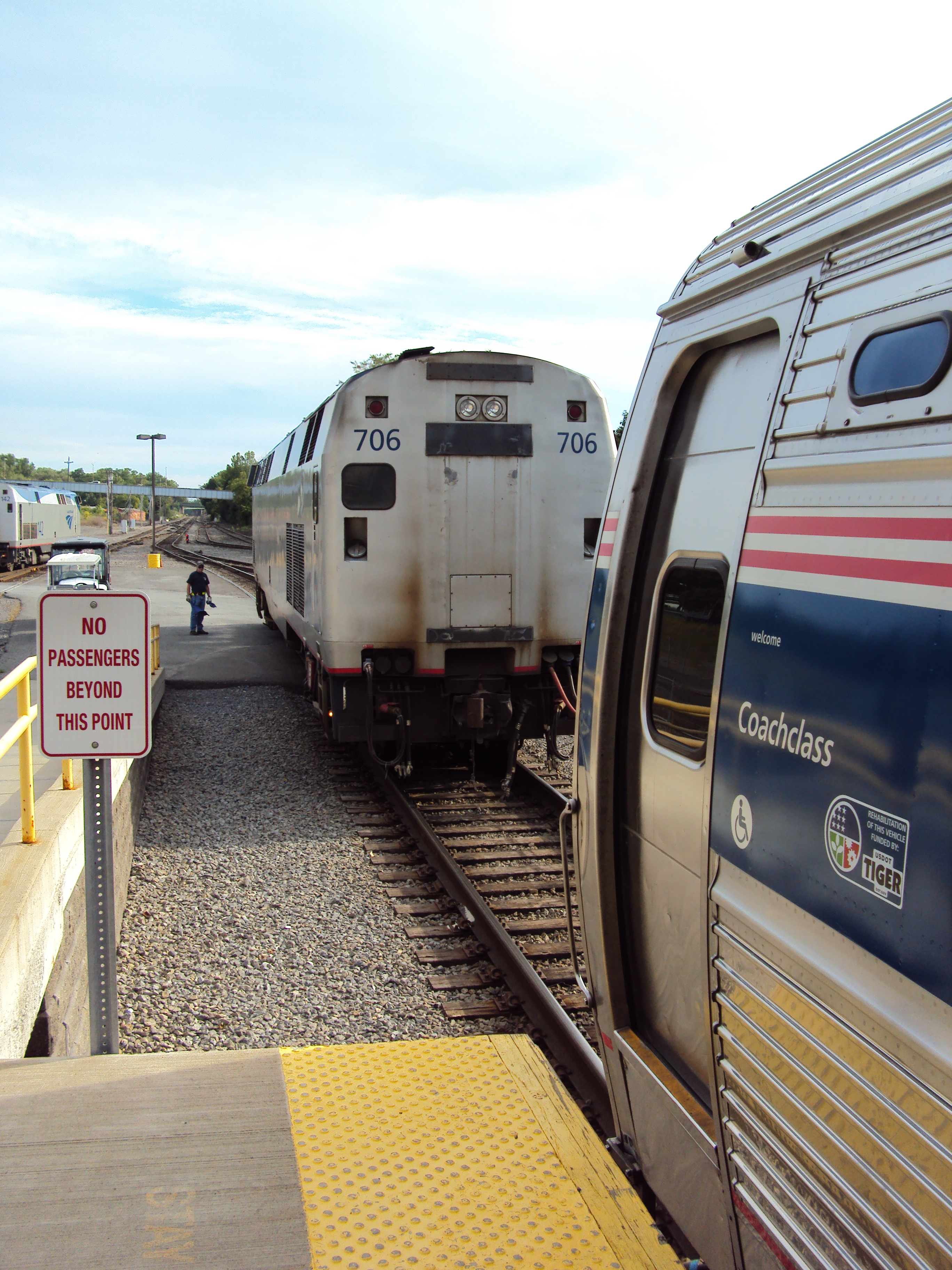 Engine change in Albany station for Adirondack Amtrak train